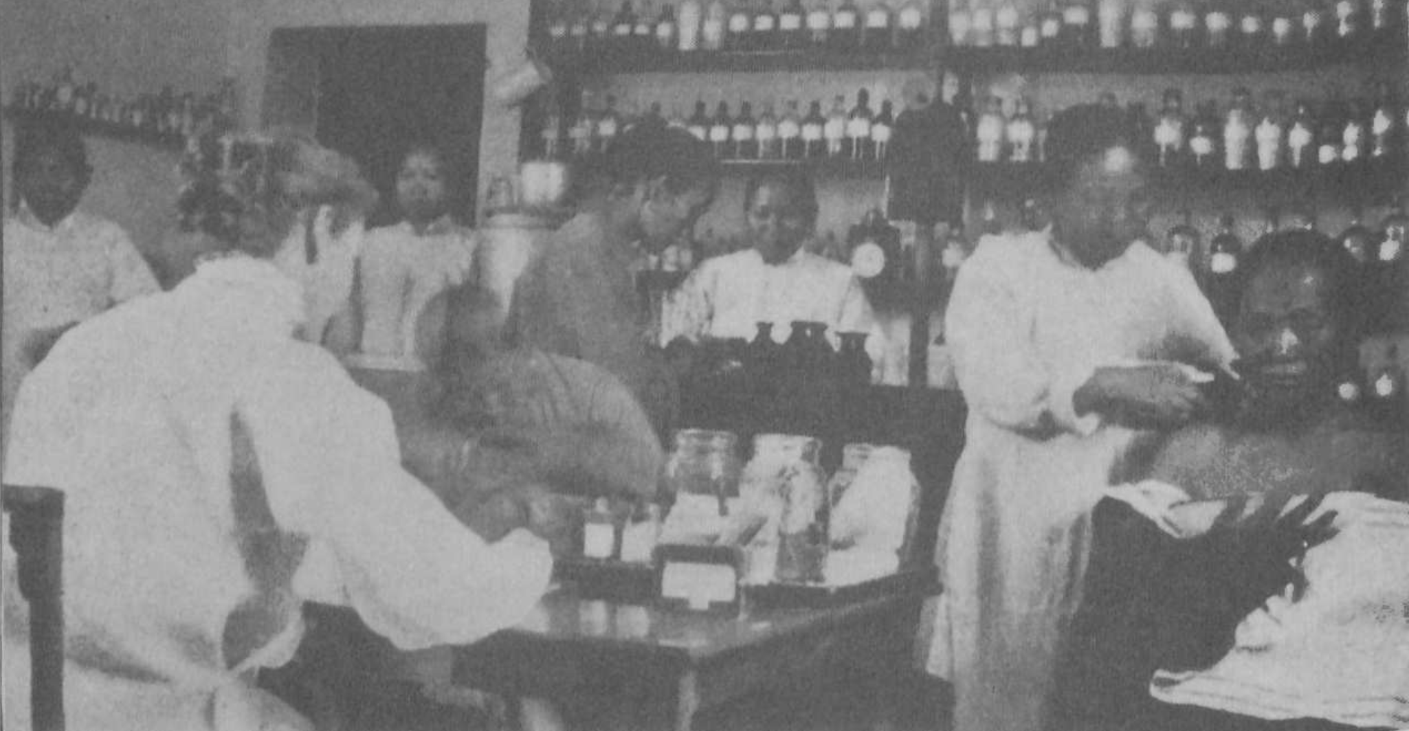 Jean Dow, Margaret R. Griffith ( her assistant), and her Chinese co-workers working in Dow's medical clinic in North Henan, China. All women working are wearing traditional white medical uniforms. The image is provided by The United Church of Canada and Victoria University Archives, Toronto.